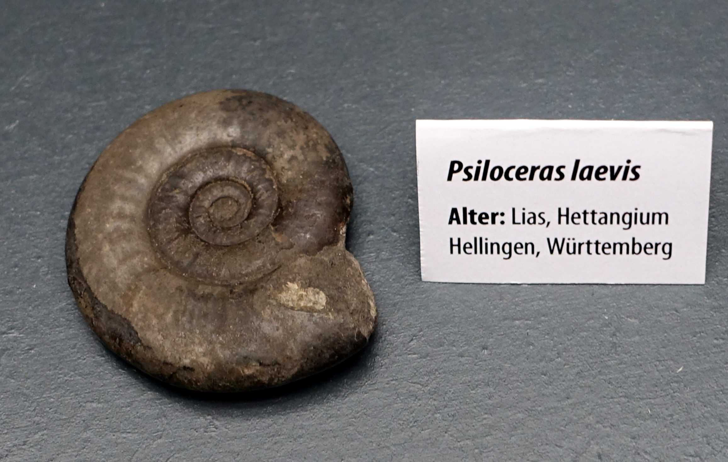 Exhibit in the Naturhistorisches Museum, Braunschweig, Germany.